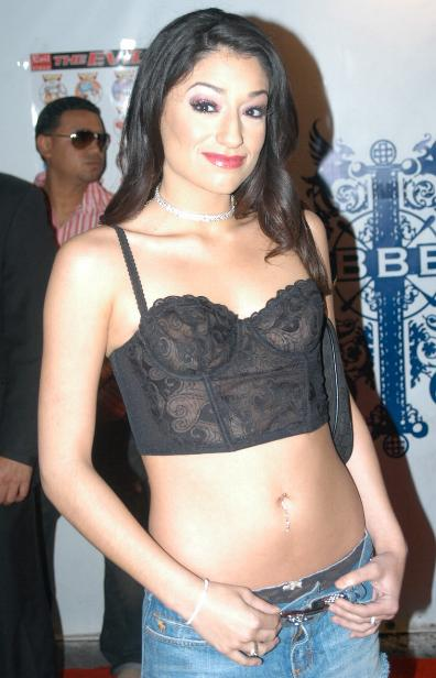 April 11 2007: Evil Angel Party.